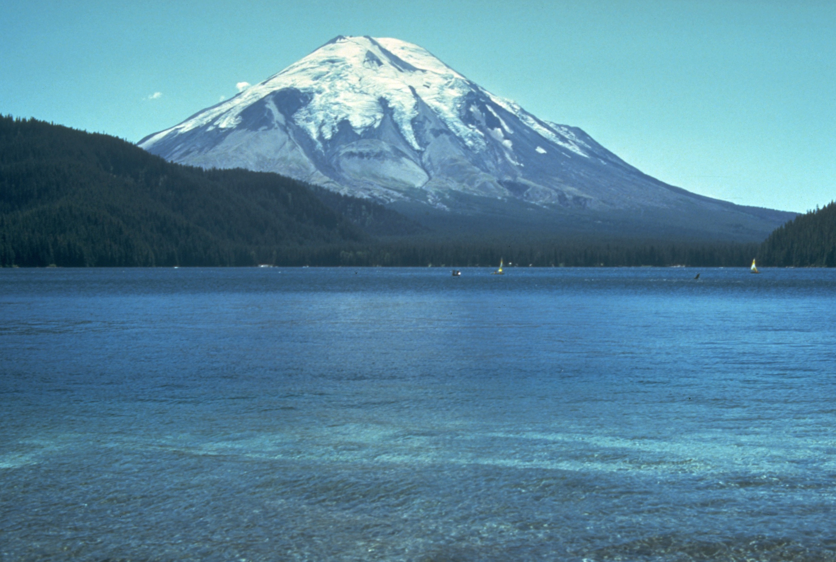 USFS Photograph taken before 18 May 1980 by Jim Nieland, US Forest Service, Mount St Helens National Volcanic Monument.